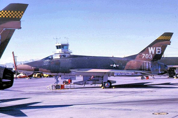 4536th Fighter Weapons Squadron - North American F-100D-30-NA Super Sabre 55-3703, Nellis AFB, Nevada